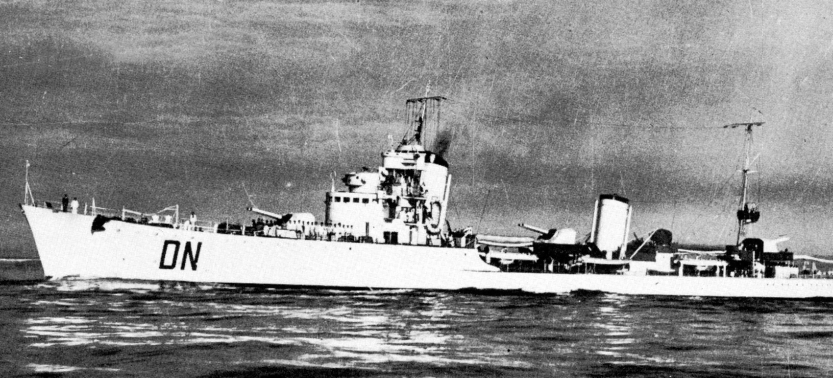 Destroyer Da Noli of Navigatori Class